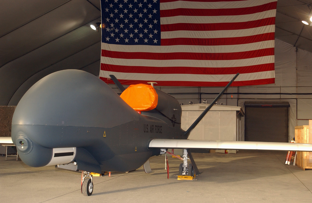 The Global Hawk unmanned aircraft is seen in a hangar at a deployed location in Southwest Asia.